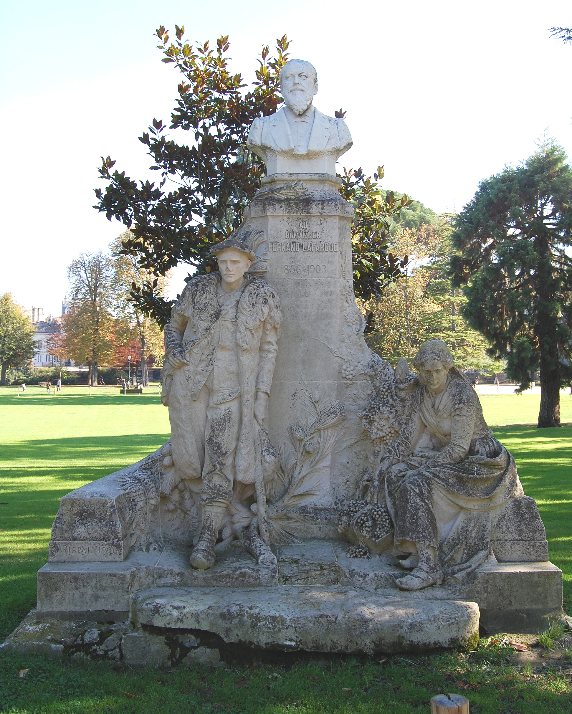 Statue of the novelist Jean Fernand-Lafargue, Public Garden of the city of Bordeaux, France.